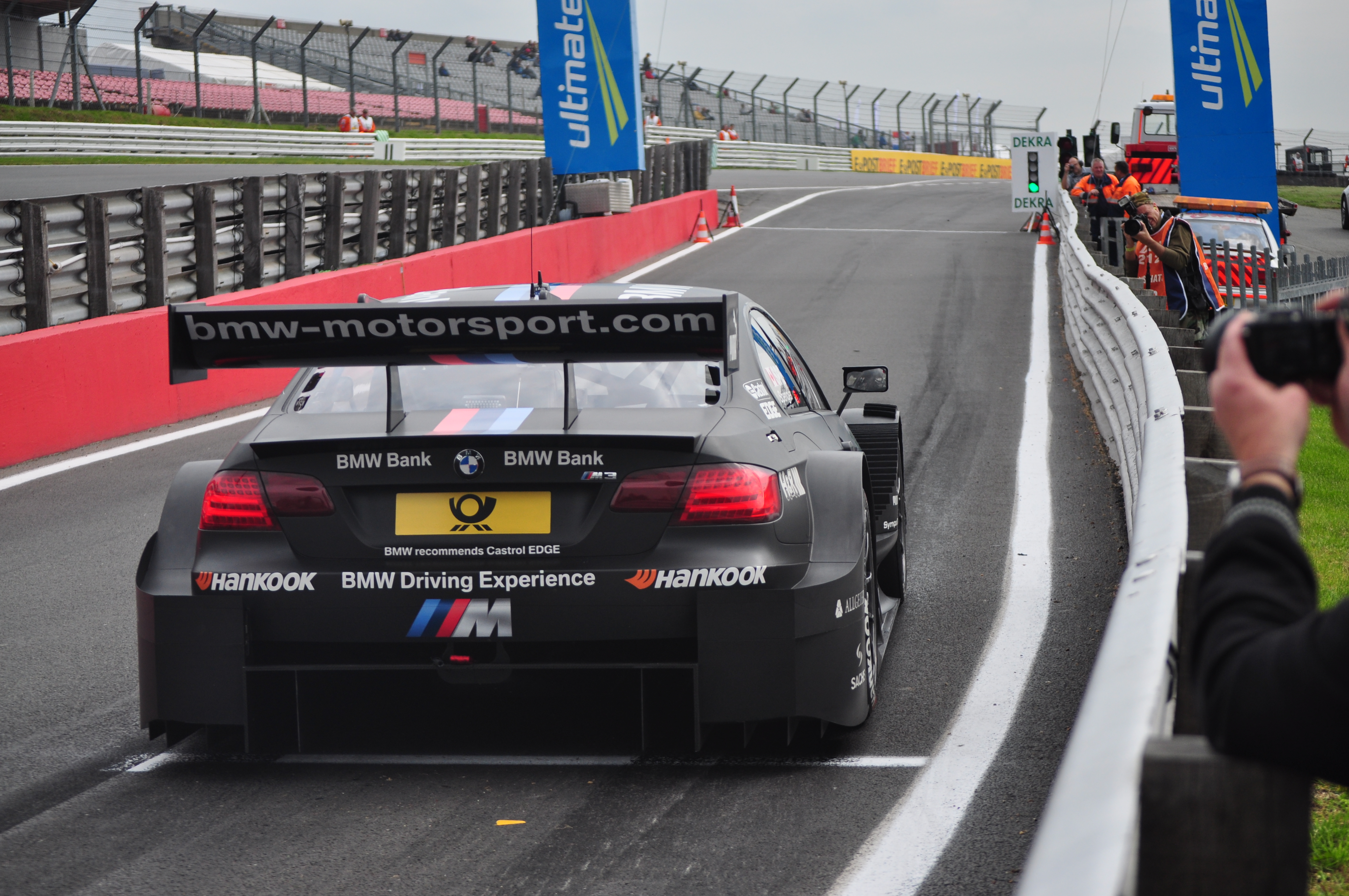 DTM Brands Hatch